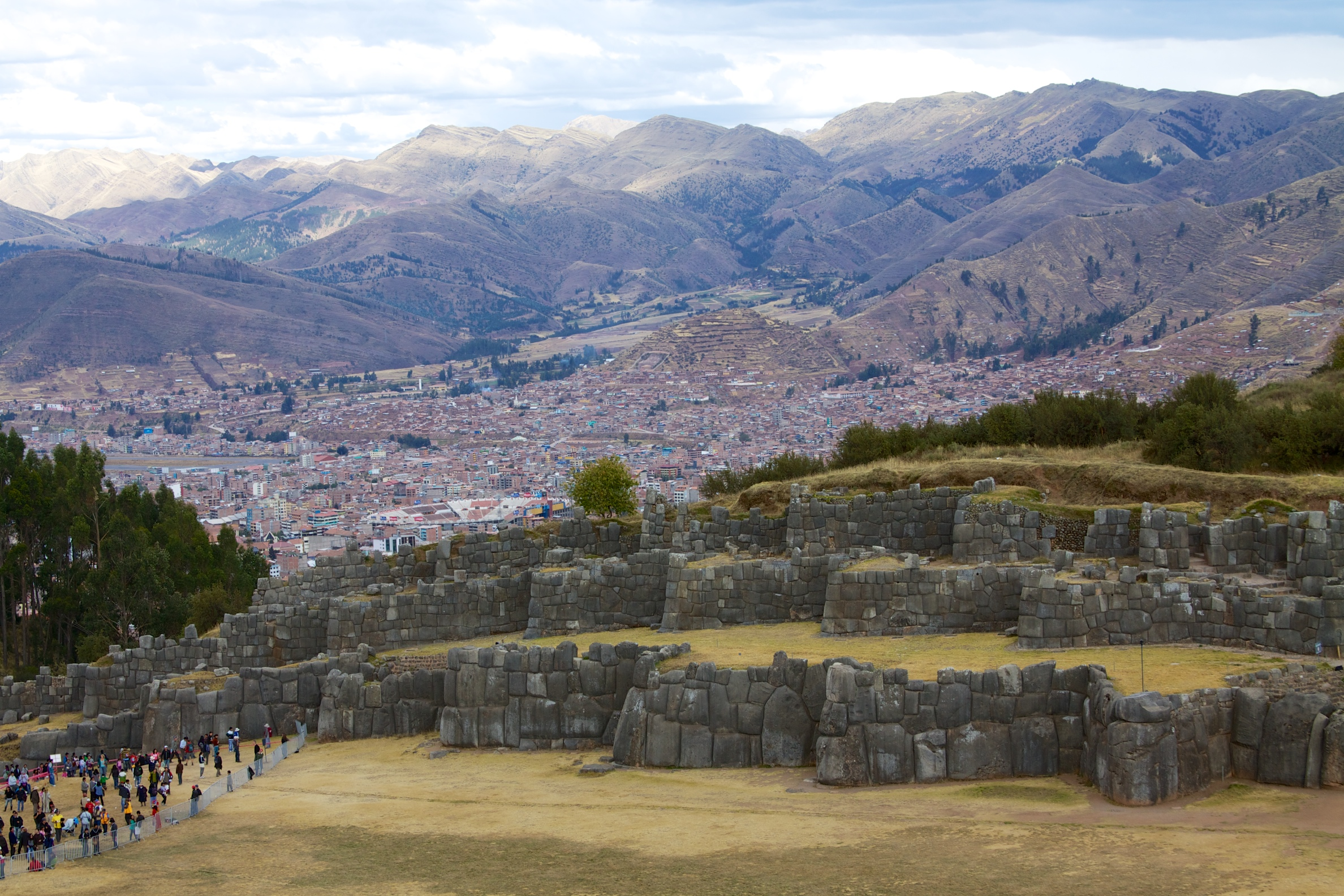 Peru - Sacred Valley & Incan Ruins 182 - Sacsaywamán overlooking Cusco